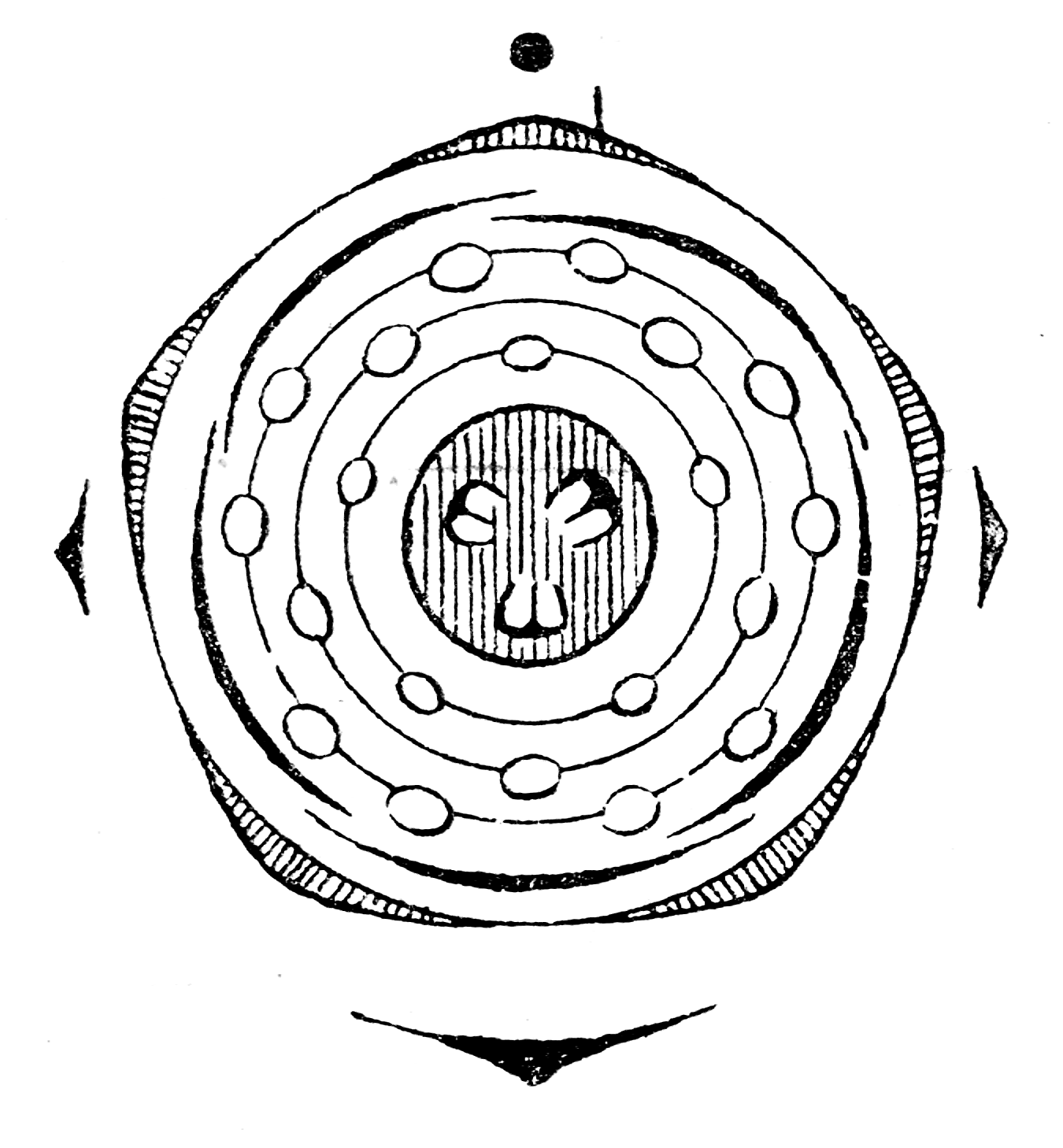 Diagram of a flower of Sorbus domestica (Rosaceae)